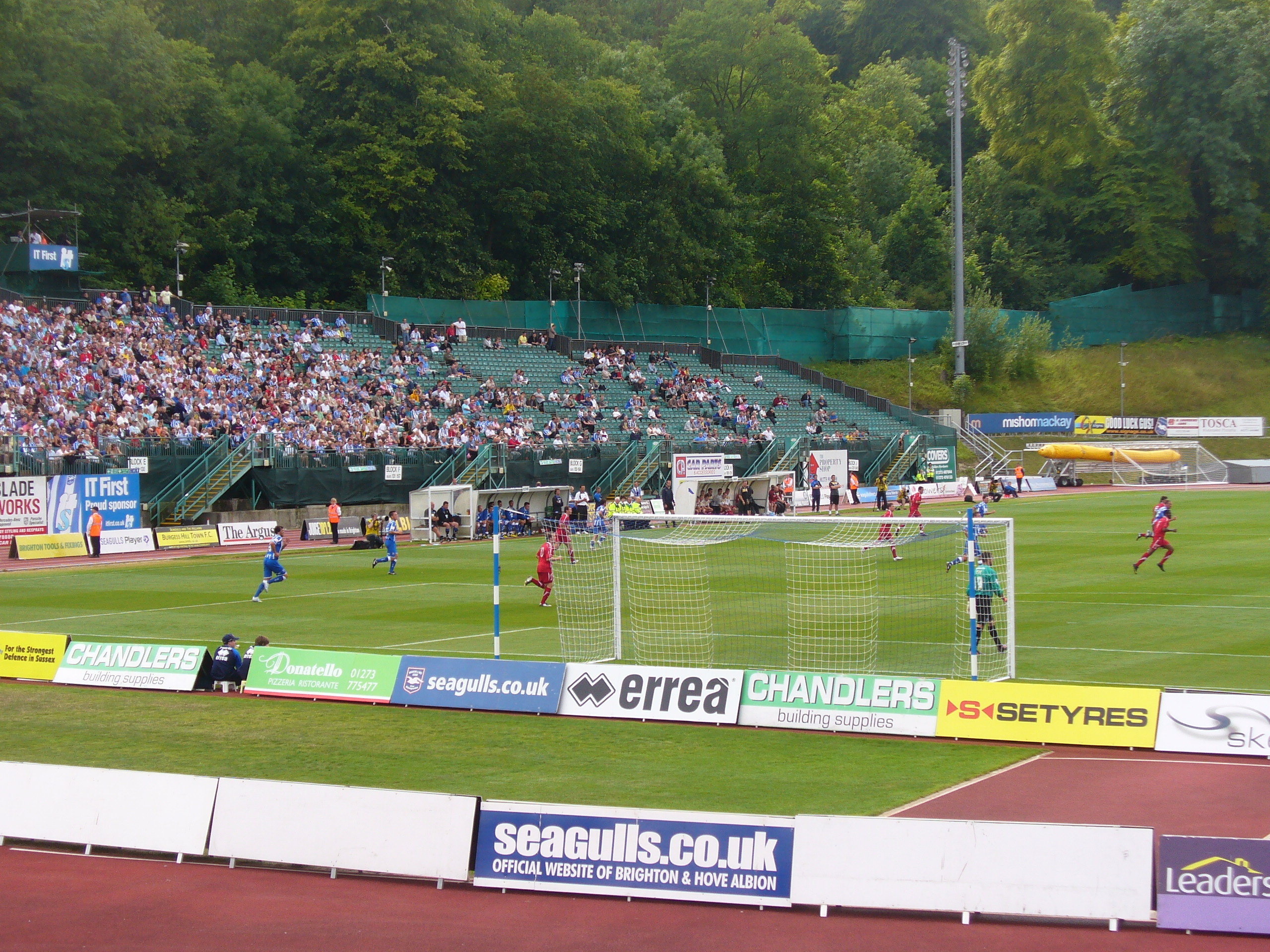 South Stand, Withdean StadiumBrighton fans watching their team's pre-season friendly with Scottish guests, Aberdeen (1-0). Withdean Stadium is an athletics stadium.